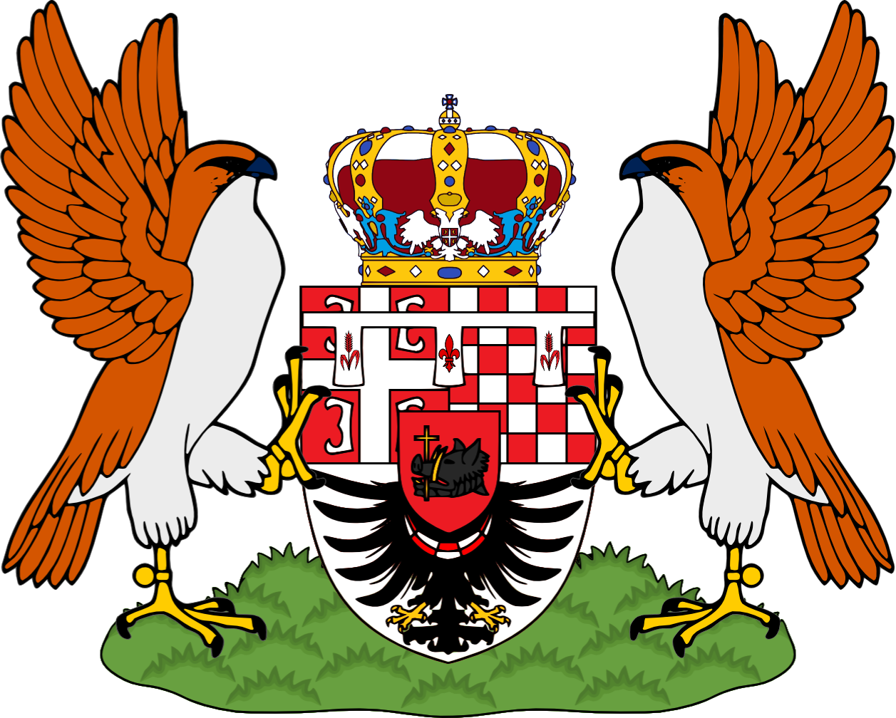 Coat of Arms of Prince Andrej Karadjordjevic